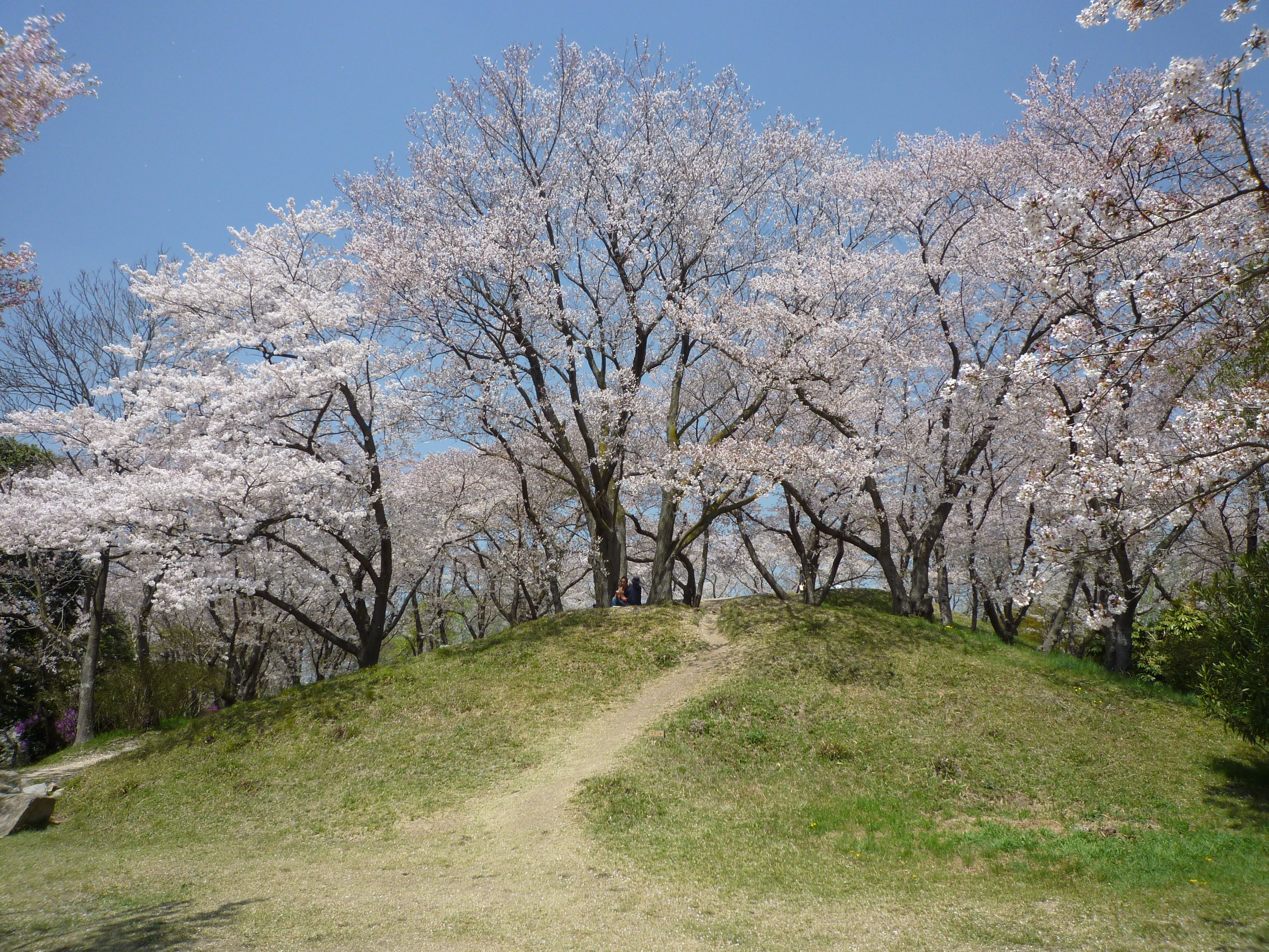 Handayama Botanical Garden (Kita-ku, Okayama city, Okayama Prefecture, JAPAN.)